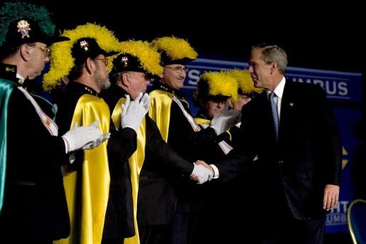 President George W. Bush greets members of the Knights of Columbus after remarks to the 122nd Annual Knights of Columbus Convention in Dallas, Texas, Tuesday, Aug. 3, 2004. This photo was found in the news release section of the White House website at